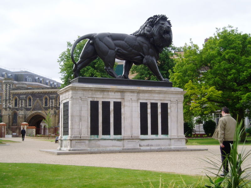 Picture of Forbury Gardens, Reading, UK. Taken by User:MarkS 14 June 2005.